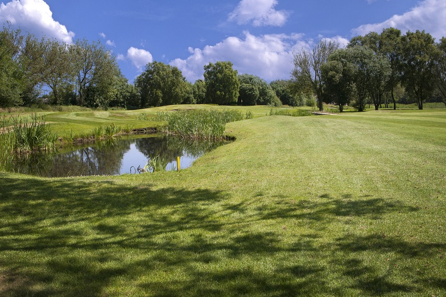 A golf course in Blackley, England.